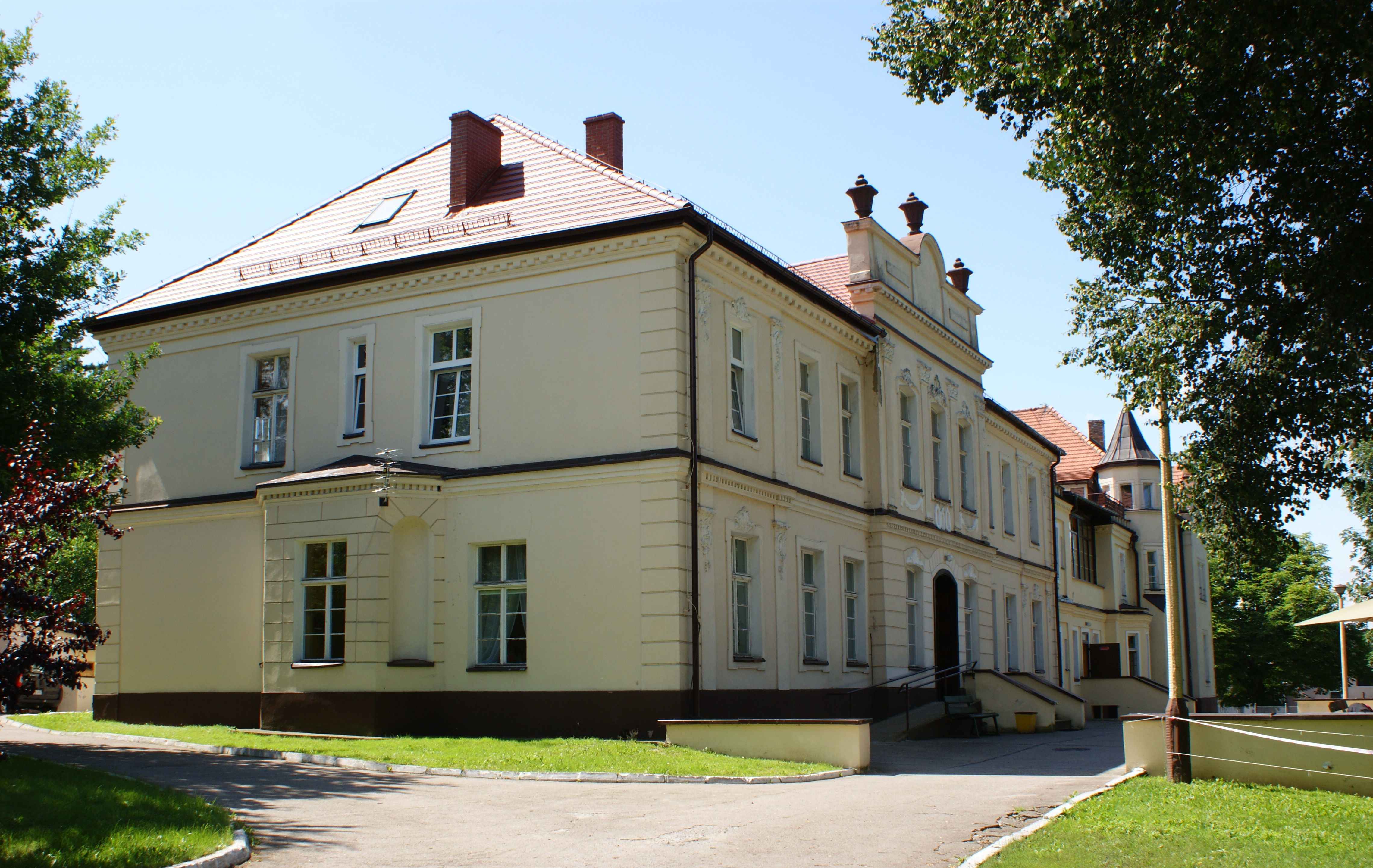 Darskowo near Złocieniec (NW Poland). Palace from 1777–1780